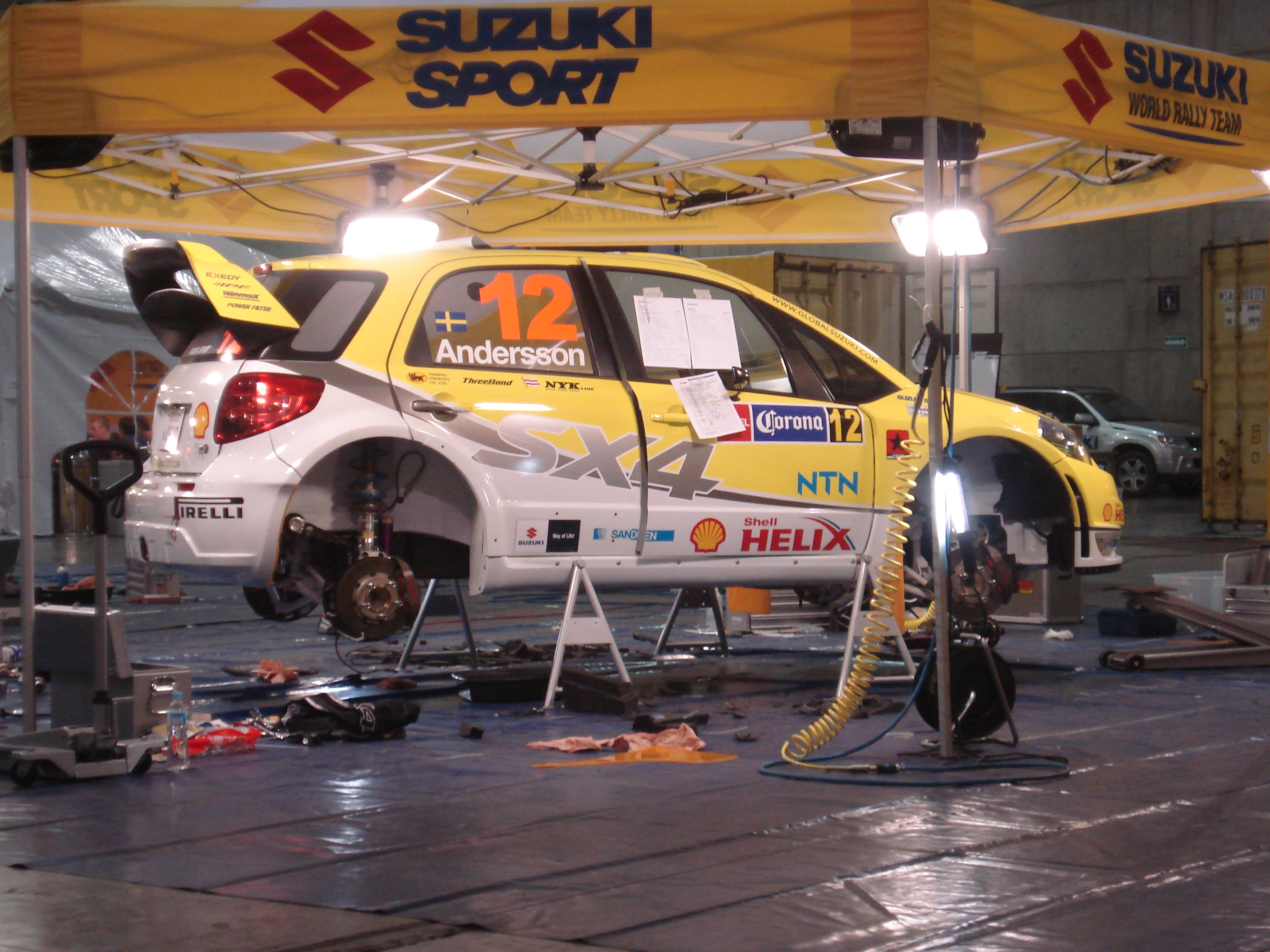 Per-Gunnar Andersson's Suzuki SX4 car being serviced prior to the 2008 Rally Mexico at rally base in the Poliforum in Leon, Mexico.